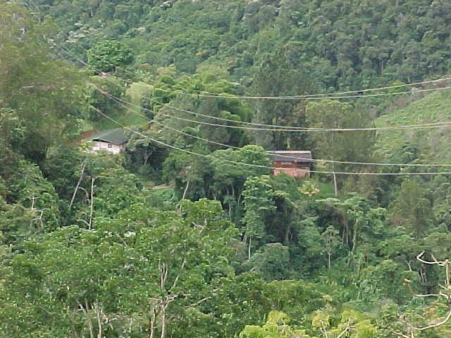 MONUMENTO CUEVAS DEL CAFETAL CARACAS - VENEZUELA